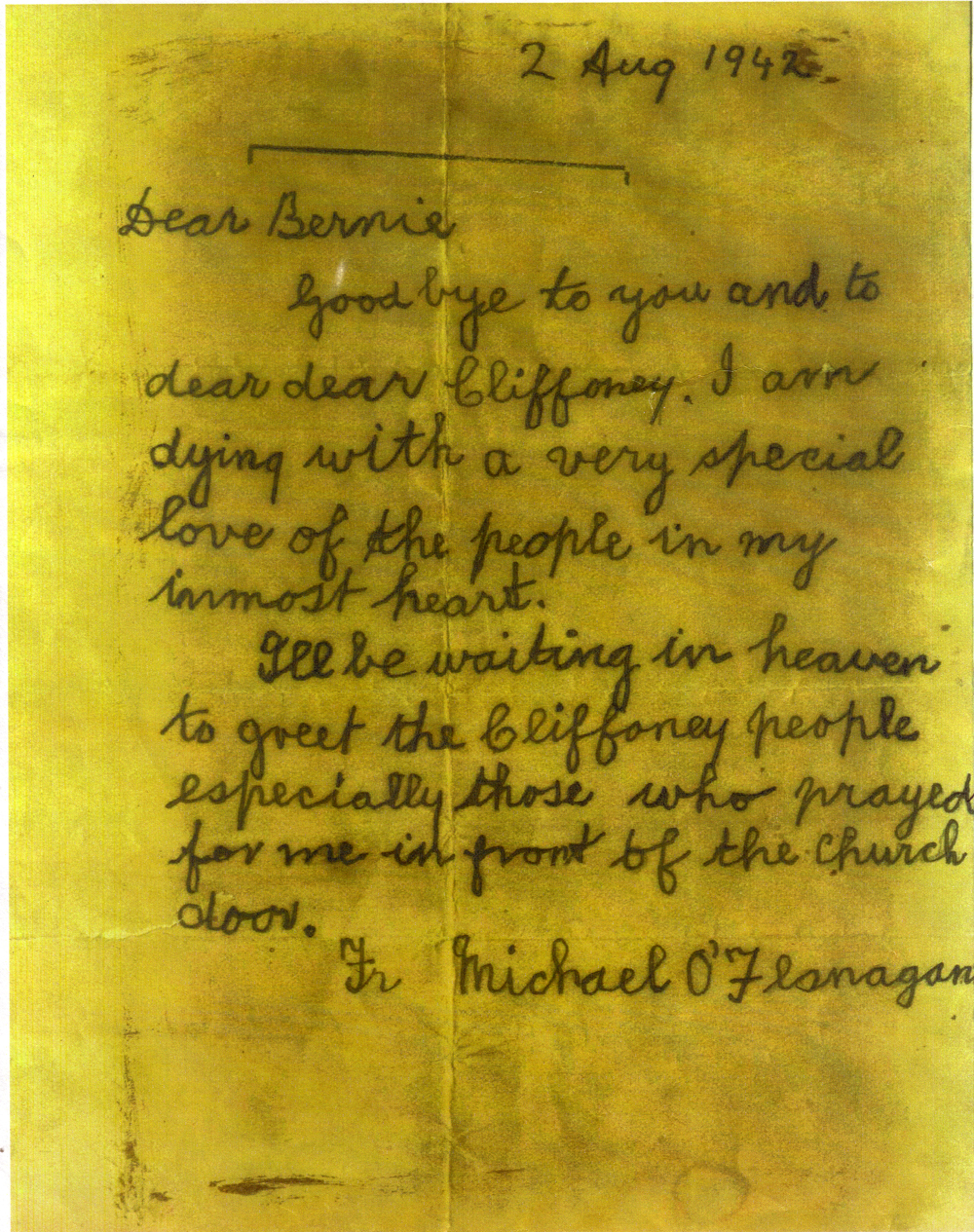 Fr. O'Flanagan's Last letter, to Bernie Conway of Cliffoney, 2nd August 1942.